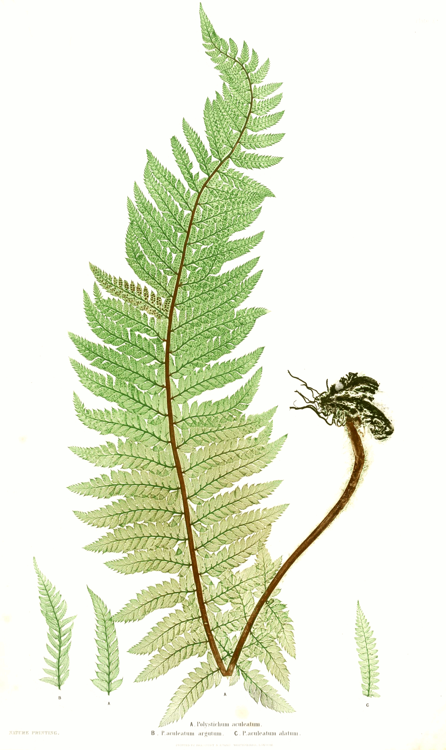 Plate from book